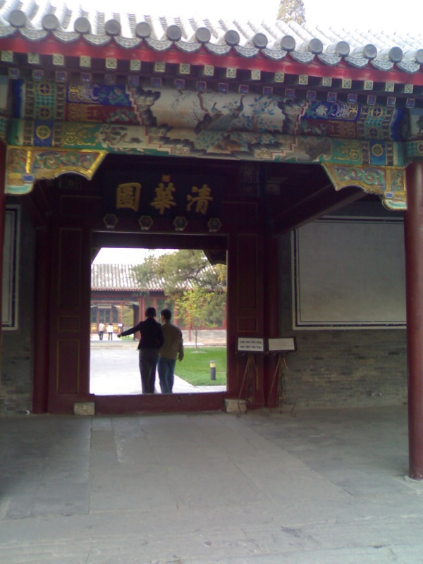 The Tsinghua University campus in Beijing